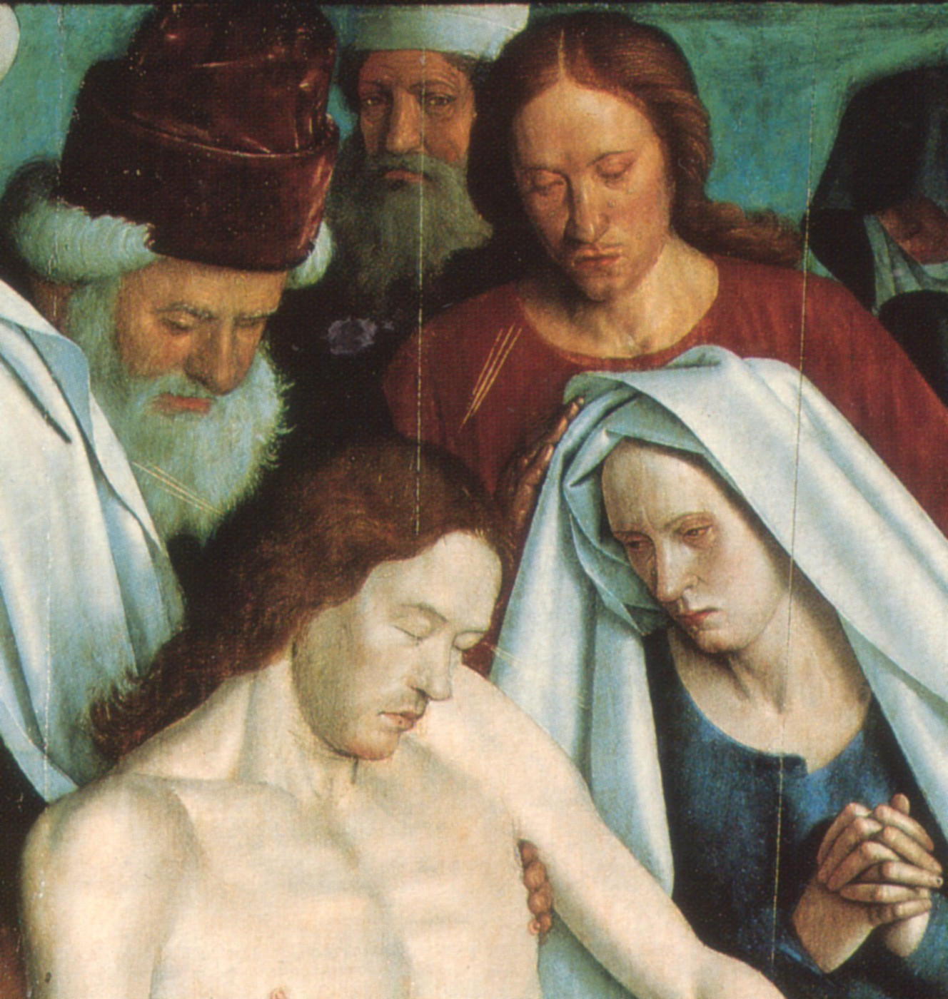 Detail of the Pieta de Nouans by Jean Fouquet